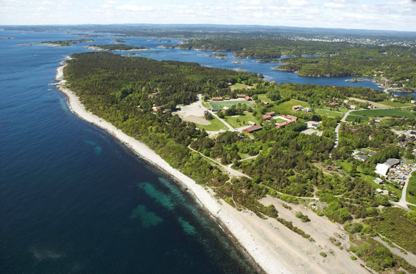 Airview of Hove Arendal